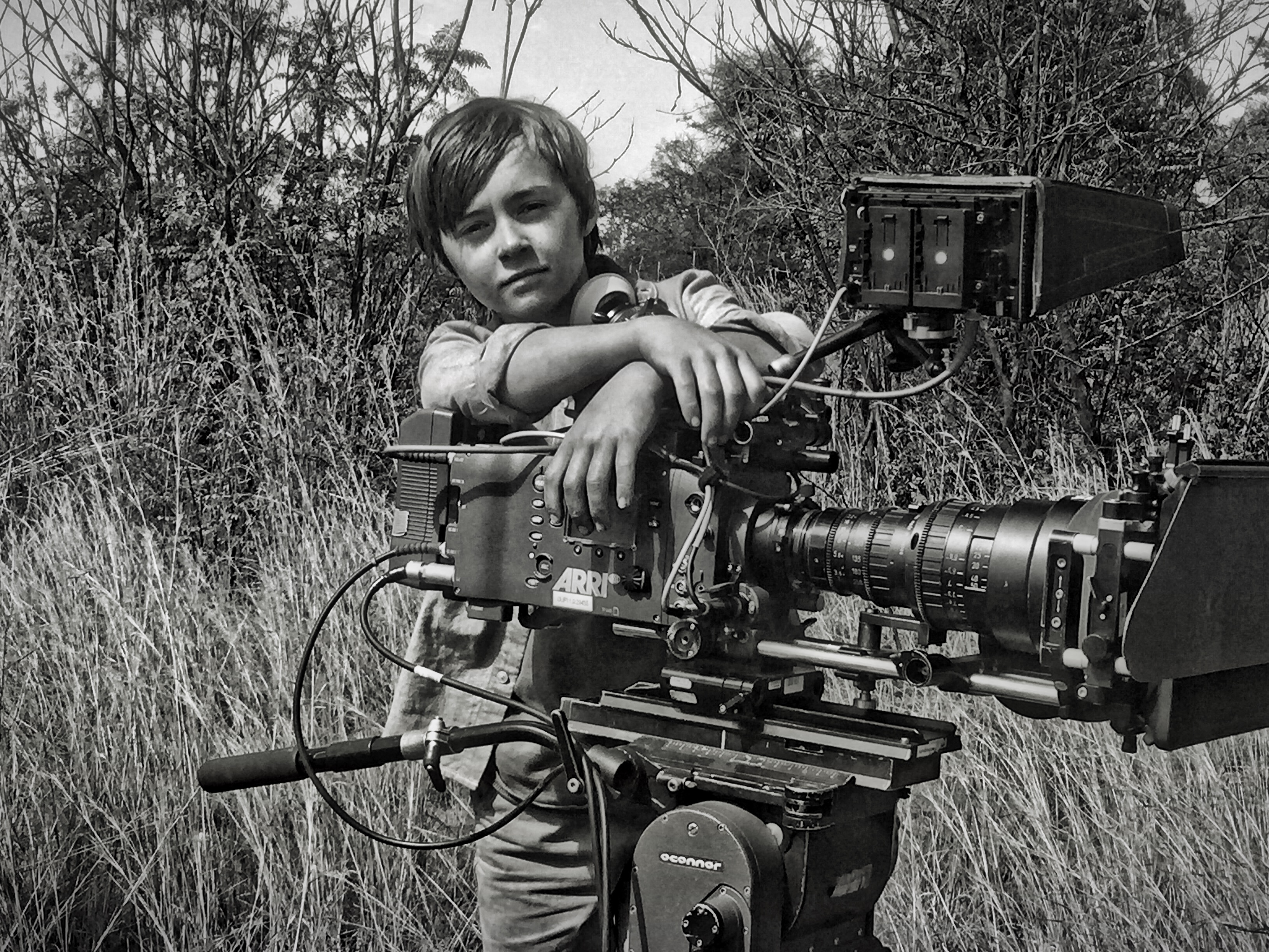 John Paul Ruttan #johnpaulruttan